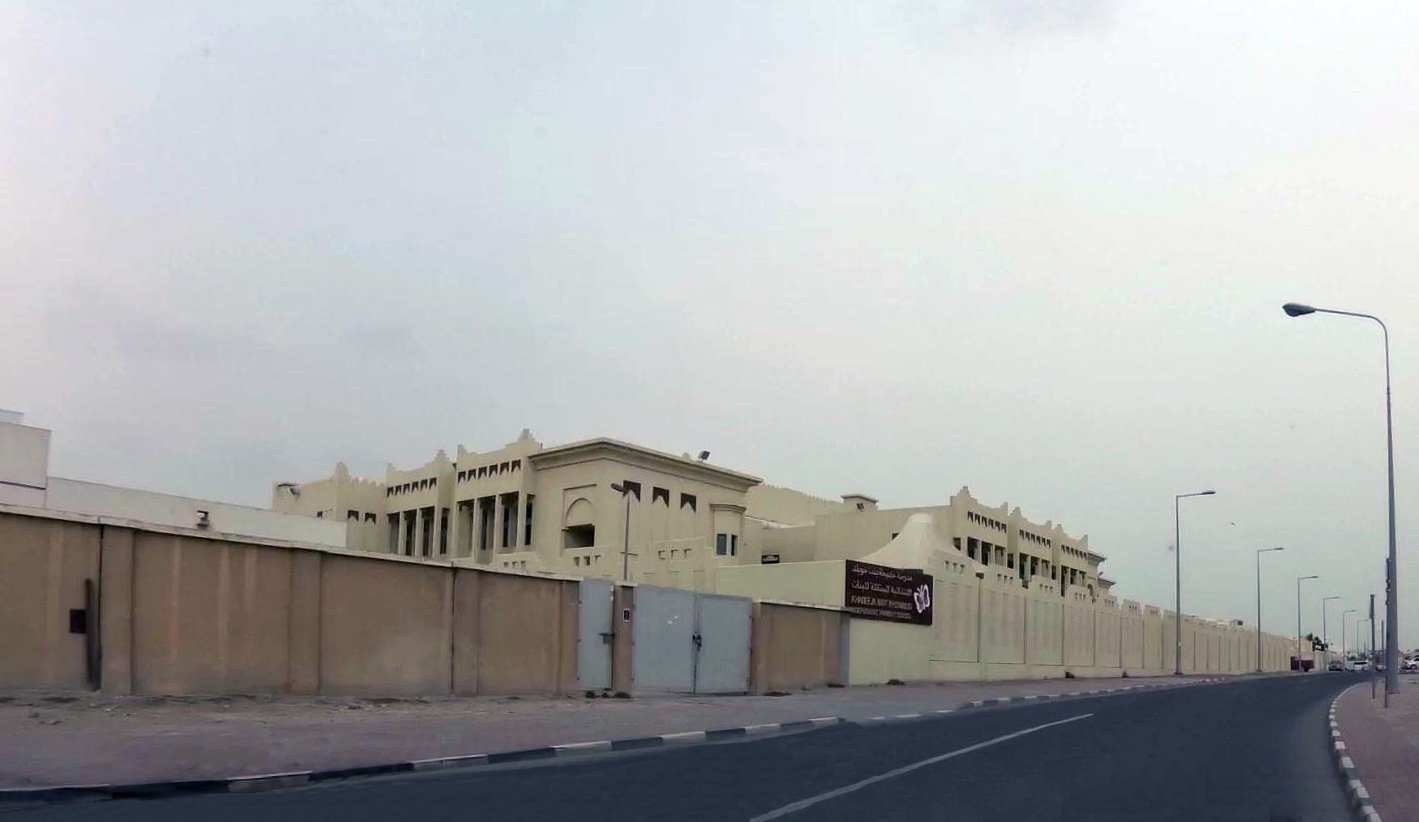 Khadija bint Khuwailid Primary Independent School for Girls on Salman bin Rabiah Street in Al Mamoura, Al Rayyan Municipality, Qatar.